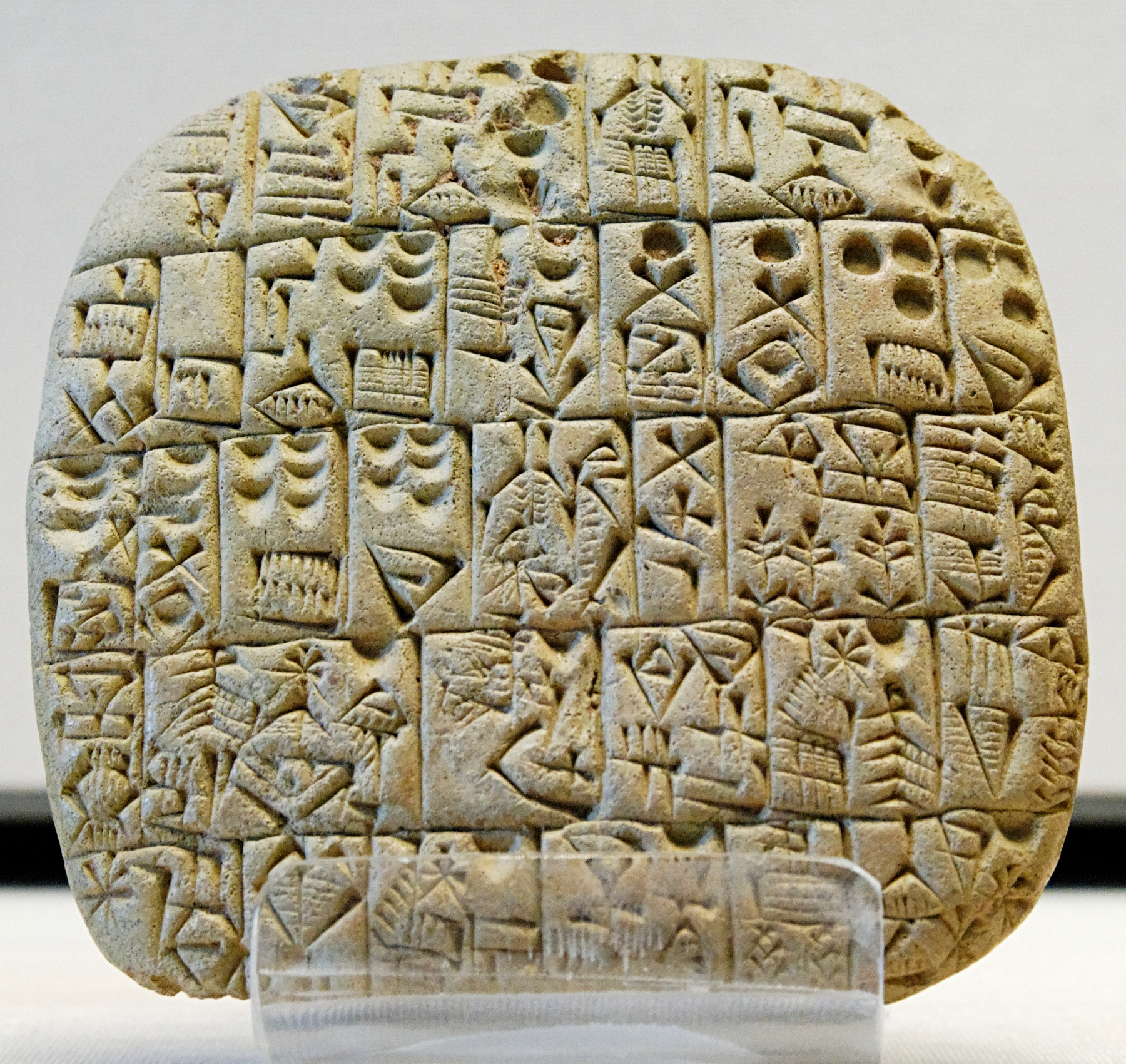 Sumerian contract: selling of a field and a house. Shuruppak, pre-cuneiform script.